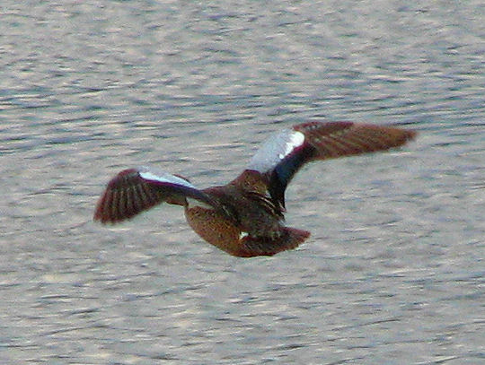 Blue-winged Teal (Anas discors), in flight, Iona Island, Ladner, British Columbia